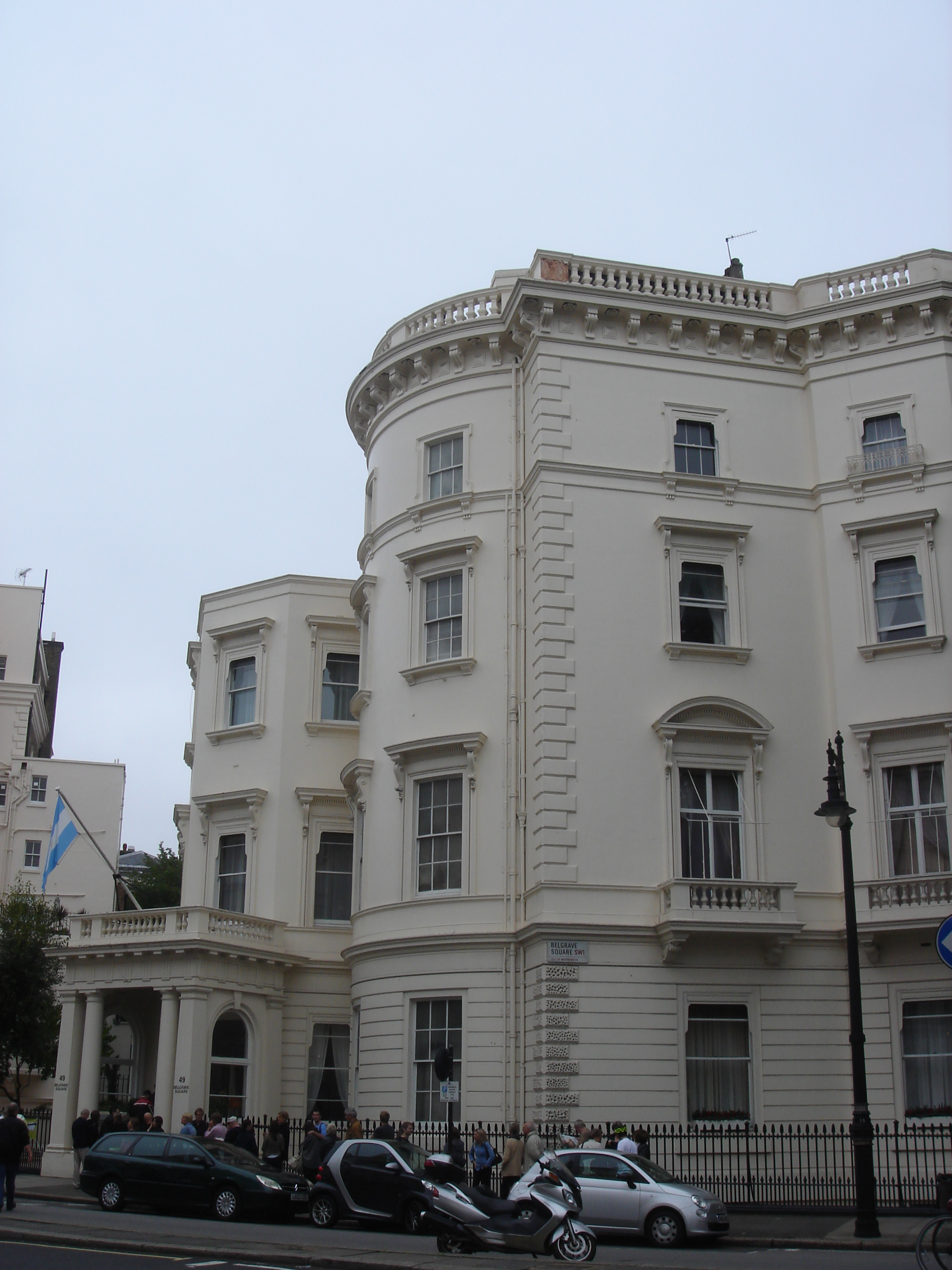 49 Belgrave Square, Knightsbridge SW1